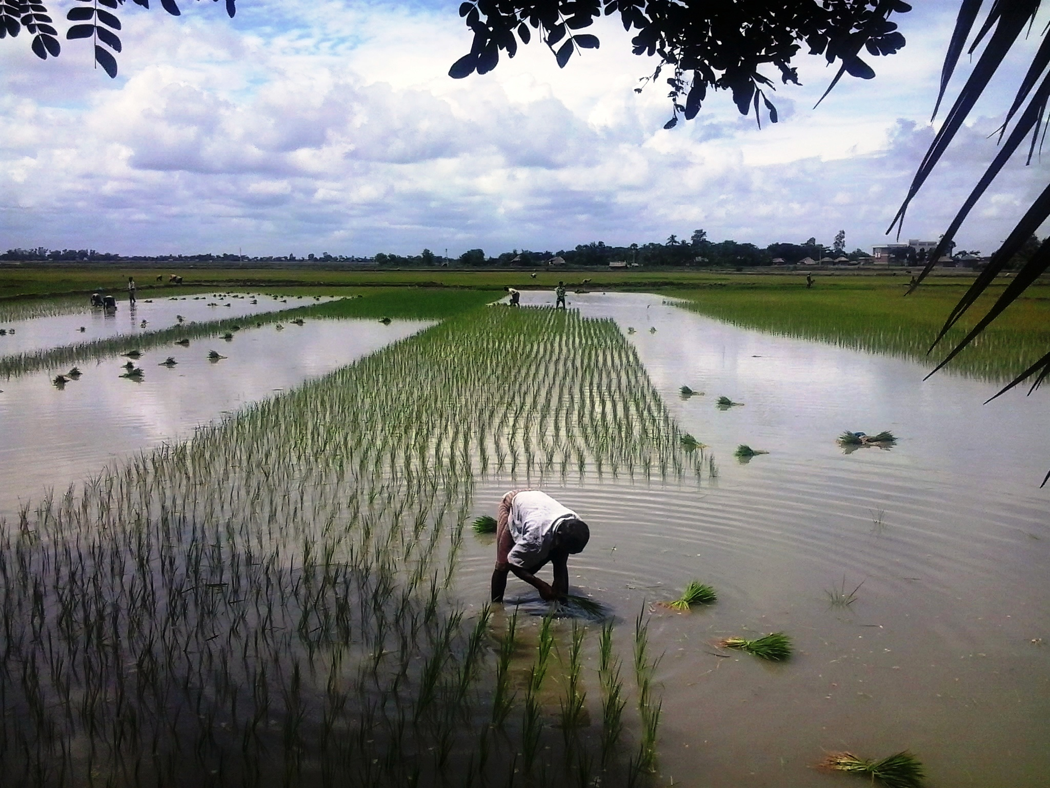 Clouds on the sky.